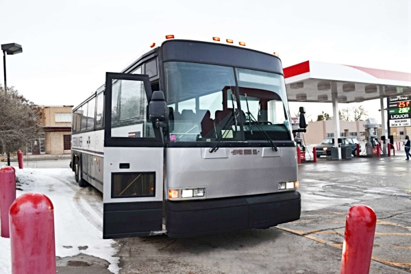 An Inland Streamliner MCI 102D3 prepares to depart a rest stop en route from Reno, NV to Phoenix, AZ via Las Vegas, NV.